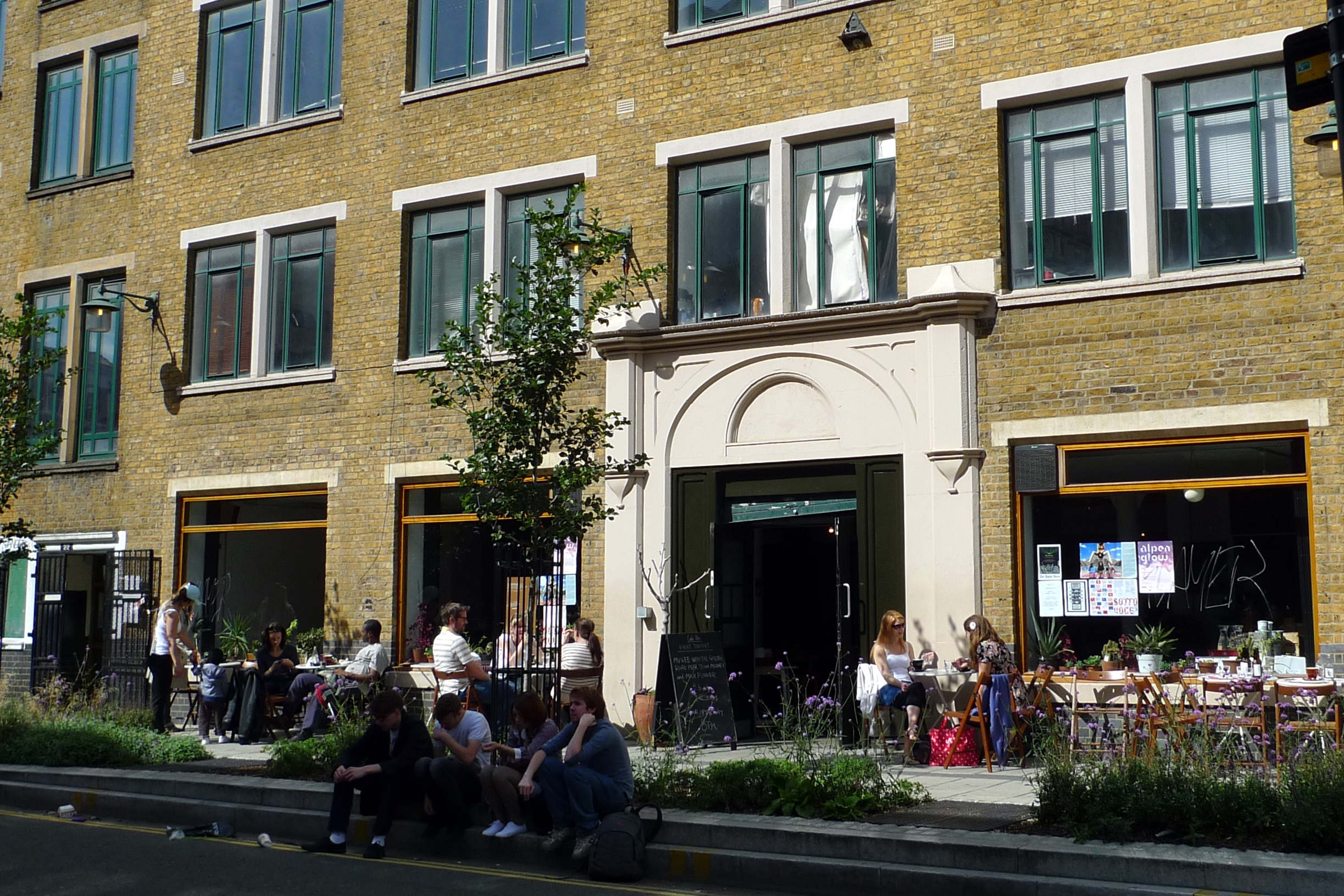 A cafe/bar which puts on lots of jazz and experimental music, pictured here on a sunny day. Address: 18-22 Ashwin Street. Owner: (website). Links: Qype